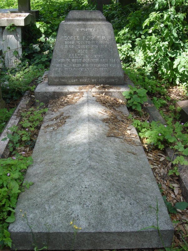 George Busk funerary monument, Kensal Green Cemetery, London